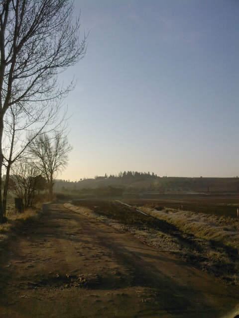 Empoli's Countryside